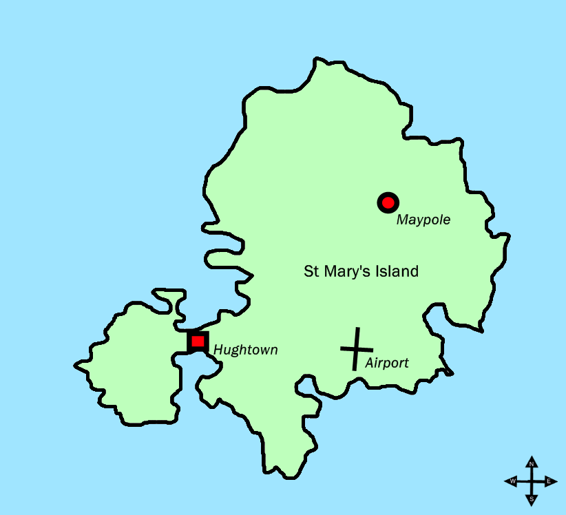 Map of the Scilly island of St. Mary's, with n/e/s/w and placenames.